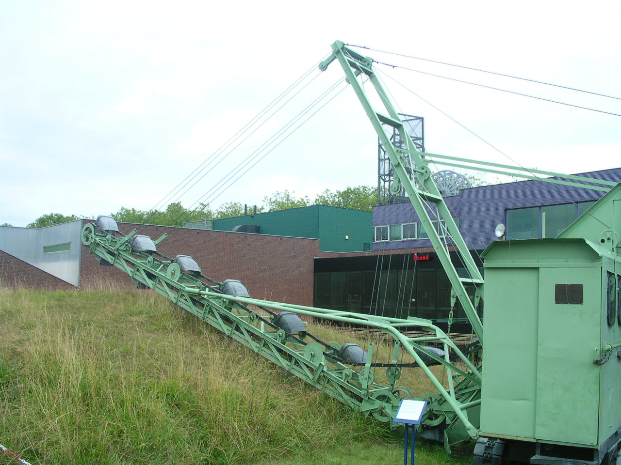 german Excavator from 1965 nearby the Industrion in Kerkrade. This machine was used to dig clay from clay pits or mounts